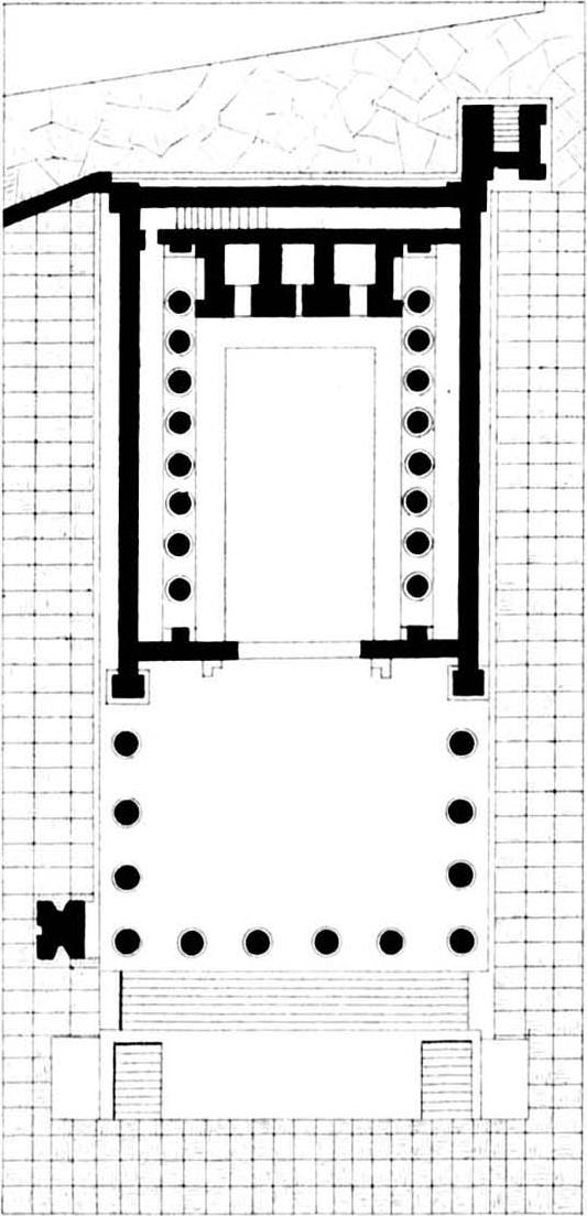 Temple of Jupiter, Regio VII, Insula 8, Pompeii, plan.